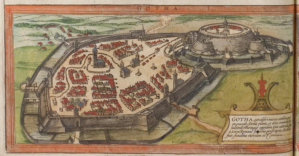 Gotha